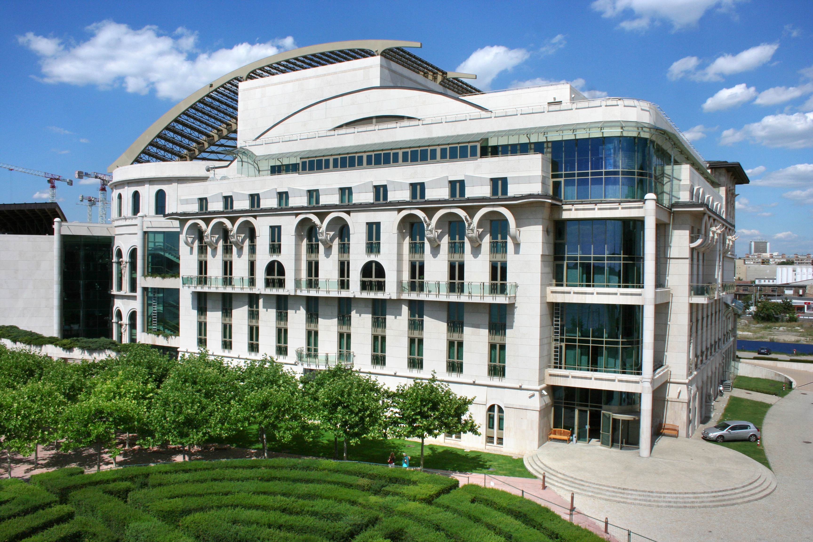 Hungarian National Theater Budapest in front - Hungary